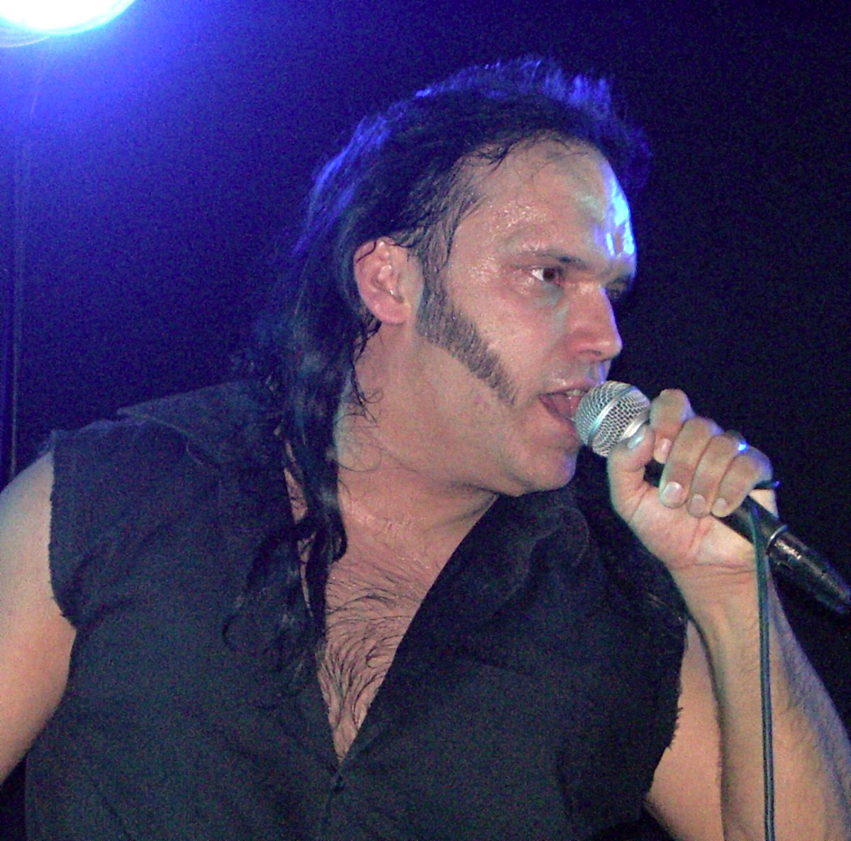 Blaze Bayley at the CC Club